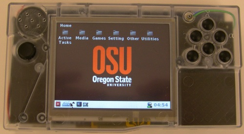 A picture showing OSWALD while booting.